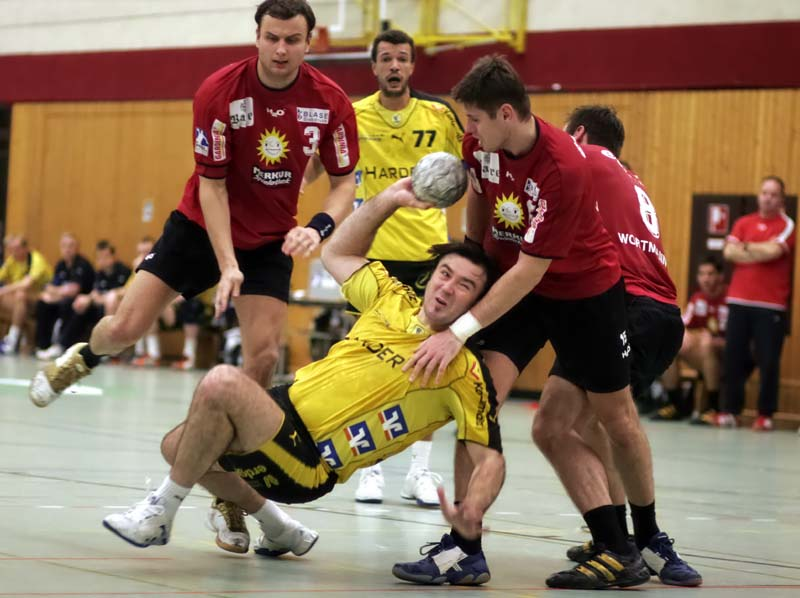 Andrej Klimovets, on November 28th 2006 in Bensheim, Weststadthalle (Germany), during the German DHB-Cup game SG Kronau-Östringen - TuS Nettelstedt-Lübbecke.